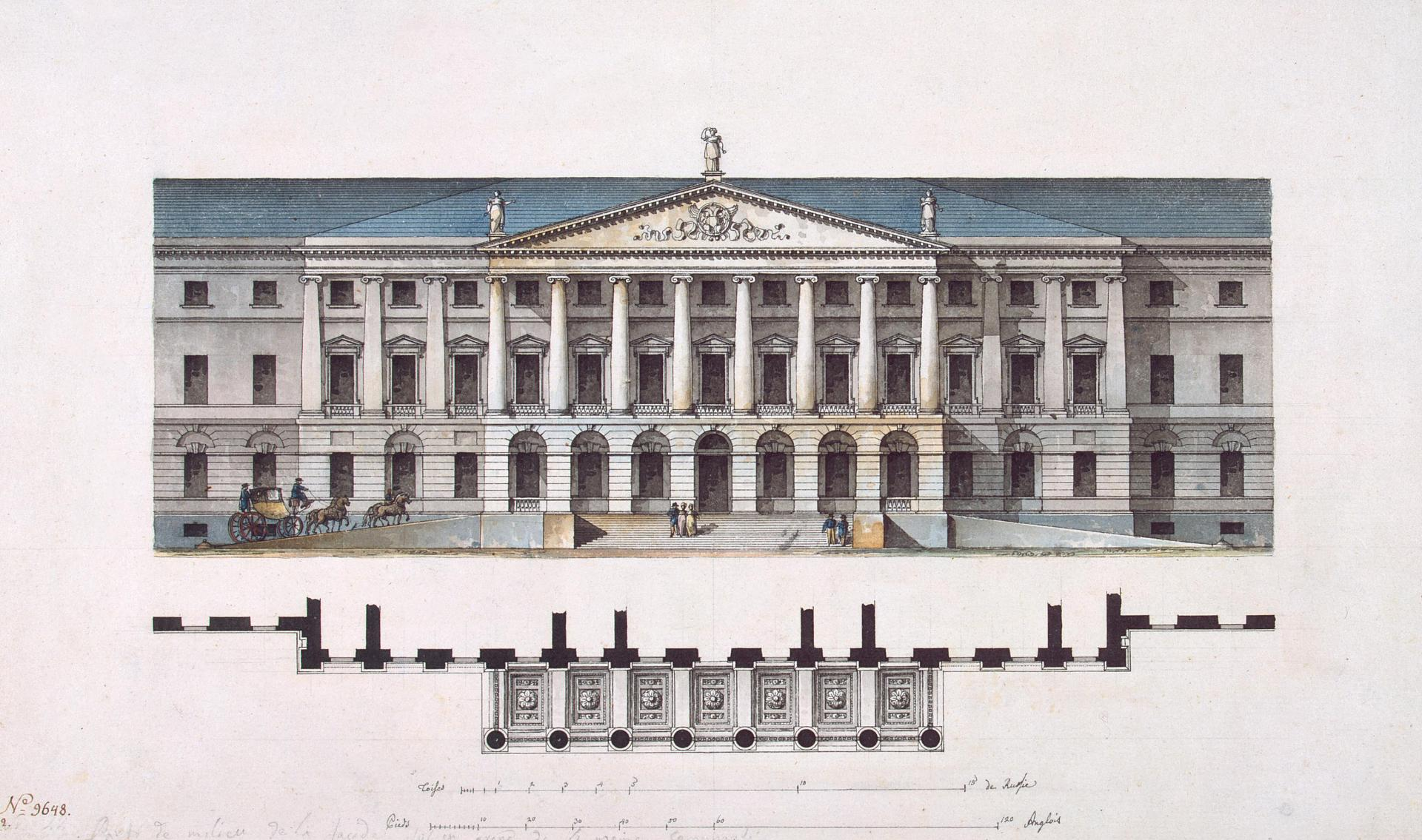 Giacomo Quarenghi. Design for the Smolny Institute in St Petersburg (ca. 1806). Drawings, Pen, brush, Indian ink and watercolour, 28.2x45.2 cm. The Hermitage, St. Petersburg, Russia.